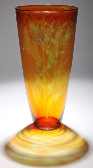 Photosensitive glass vase by John Penman